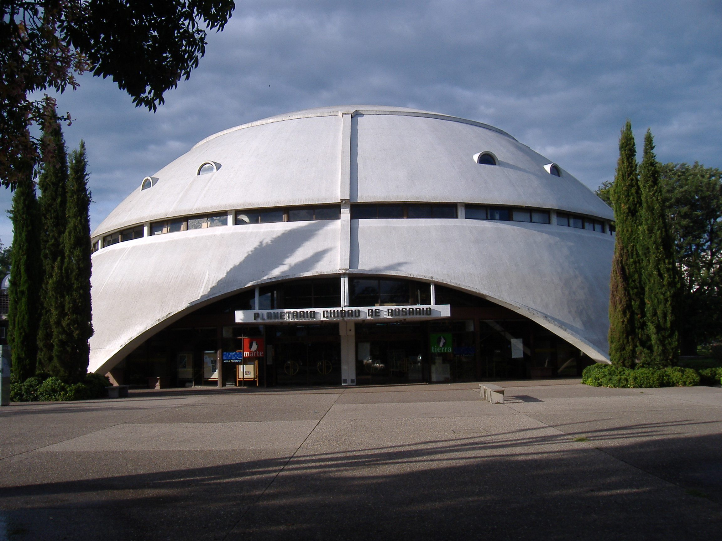 Planetario Ciudad de Rosario Luis Cándido Carballo, the public municipal planetarium of Rosario, Argentina. This building is located within the Urquiza Park, near the Paraná River, on the southern end of the central district.